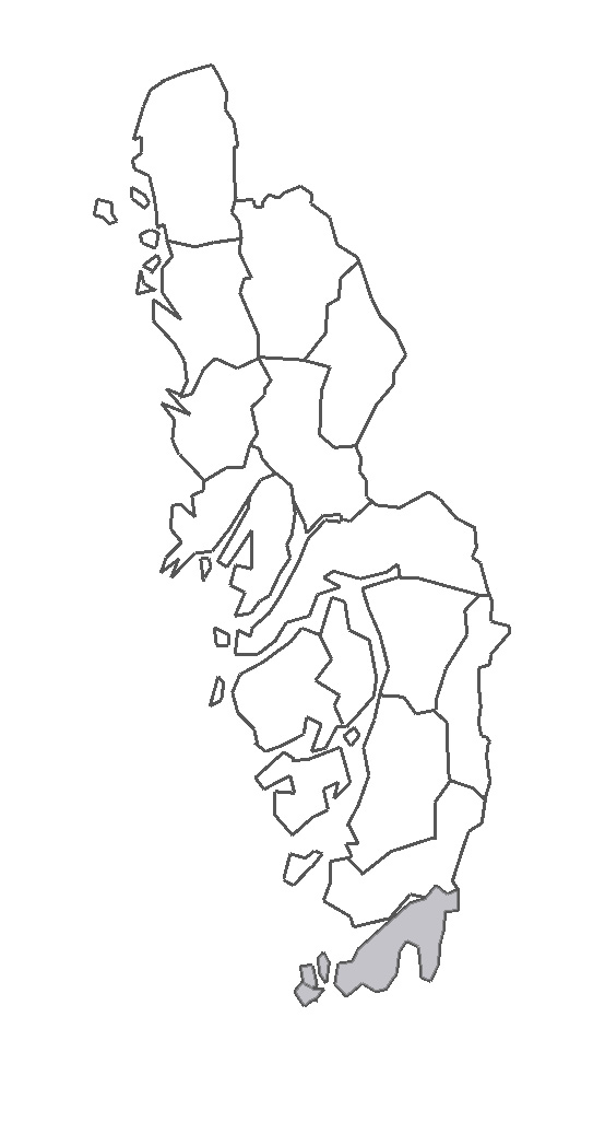 Map describing the location of Hising Western Hundred in Bohuslän Province, Sweden.